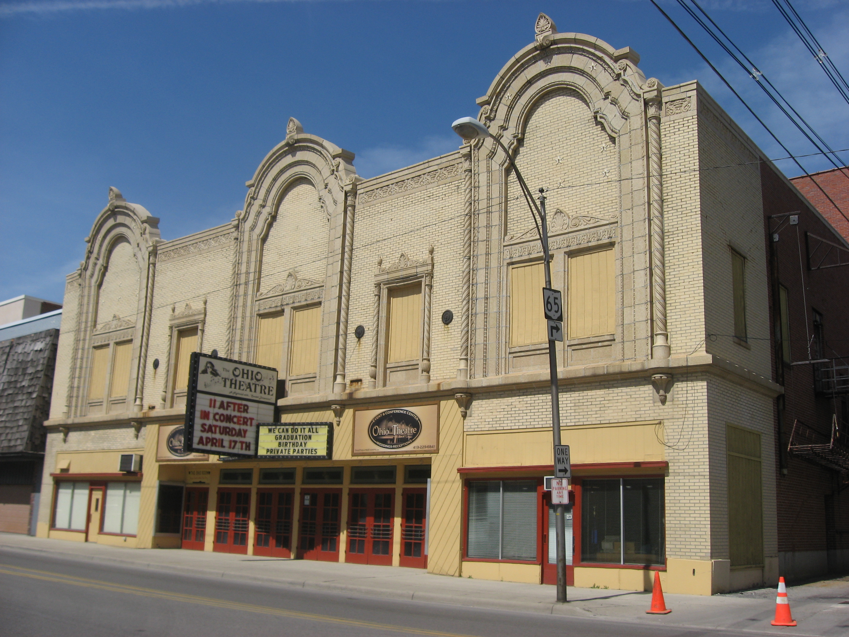 Front of the Ohio Theatre, located at 122 W. North Street in Lima, Ohio, United States. Built in 1927, it is listed on the National Register of Historic Places.